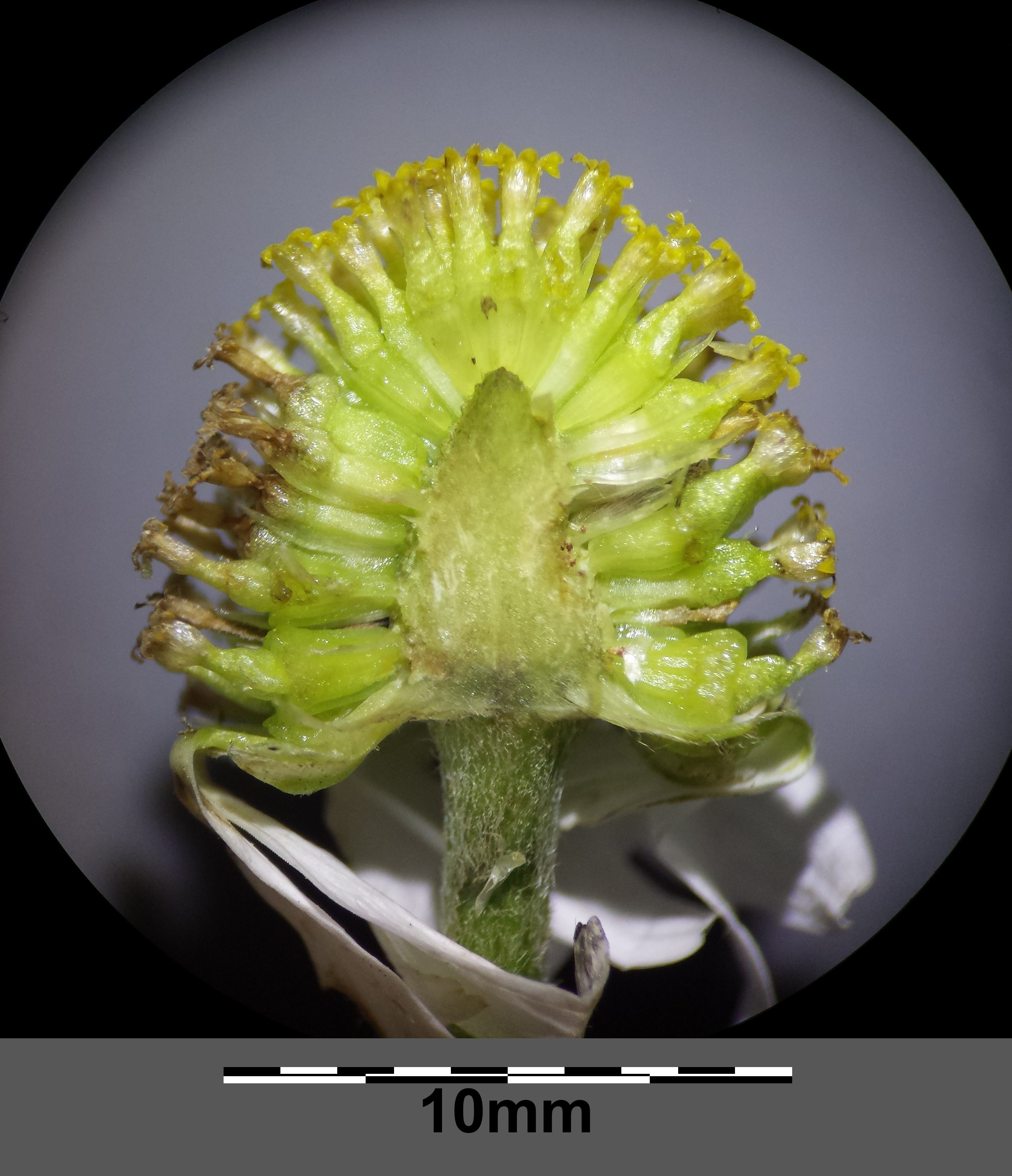 Flower basket (cut-through) Taxonym: Anthemis arvensis (subsp. arvensis) ss Fischer et al. EfÖLS 2008 ISBN 978-3-85474-187-9 Location: nearby Riebeis, Rappottenstein, district Zwettl, Lower Austria - ca. 775 m a.s.l. Habitat: field